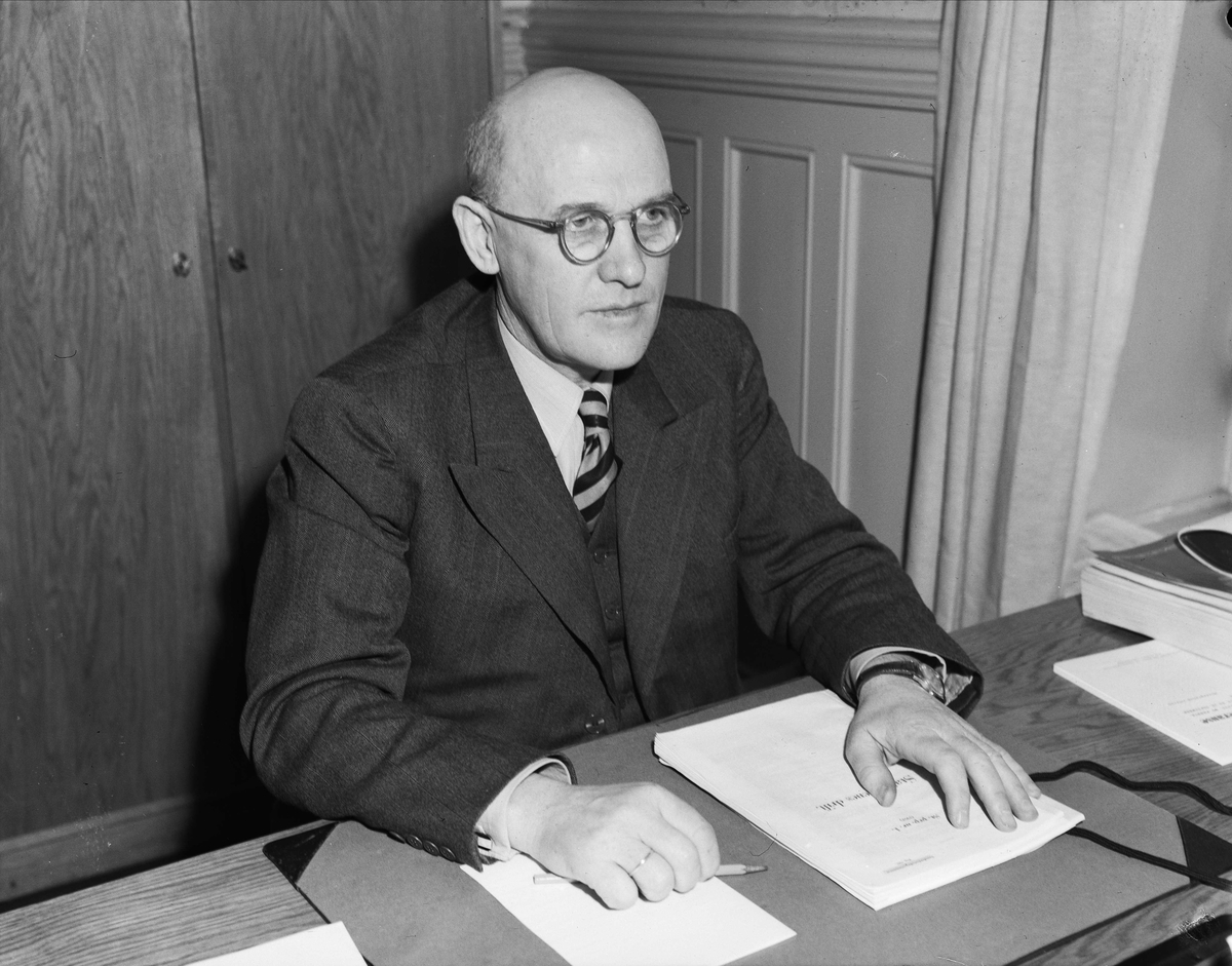 Einar Frogner (1893-1955) was the leader of the Norwegian Centre Party 1948-1954, and Minister of Agriculture in 1945 in the Unification Cabinet of Einar Gerhardsen.